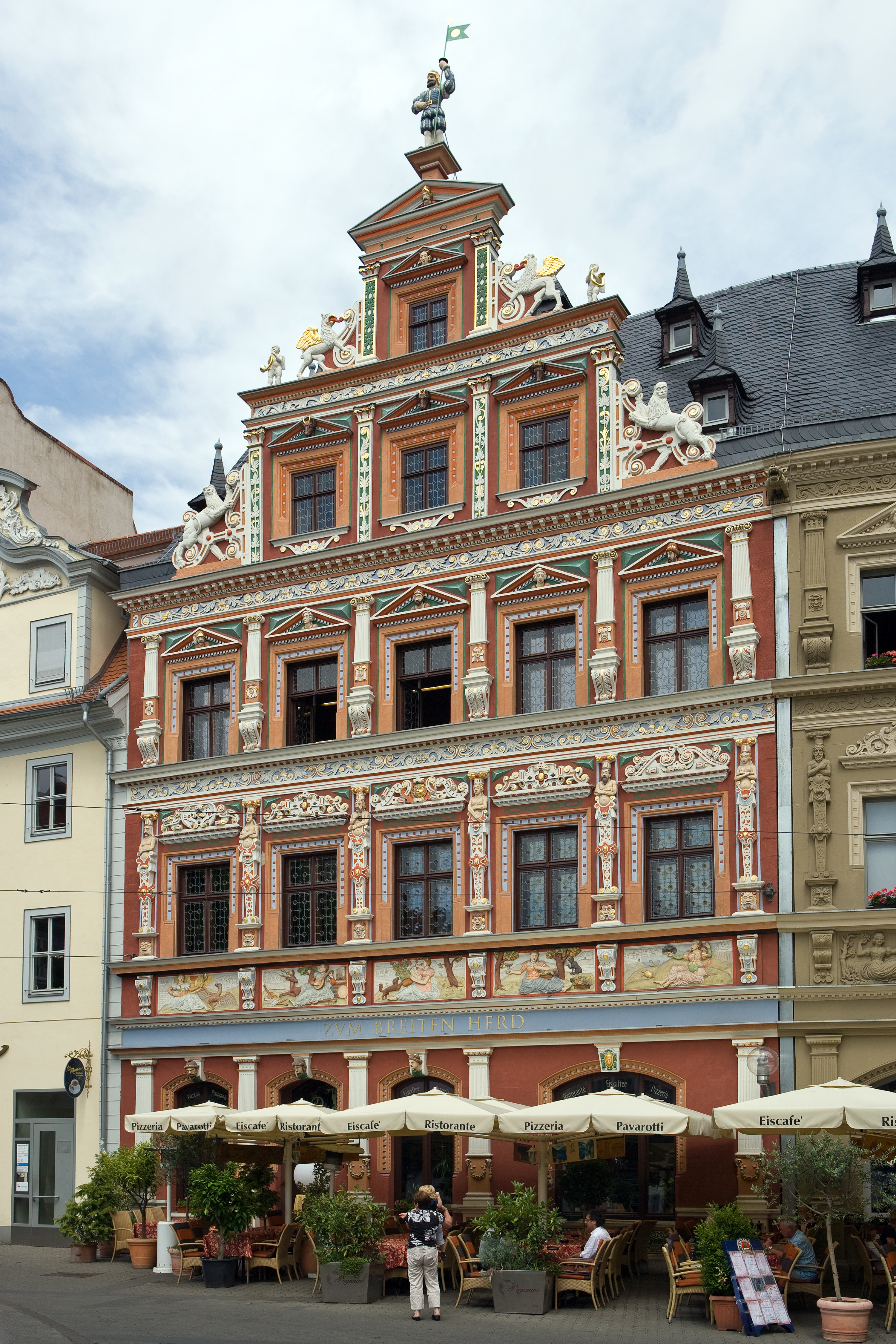 Erfurt: Haus zum Breiten Herd (House to the Broad Cooker) as seen from the southeast